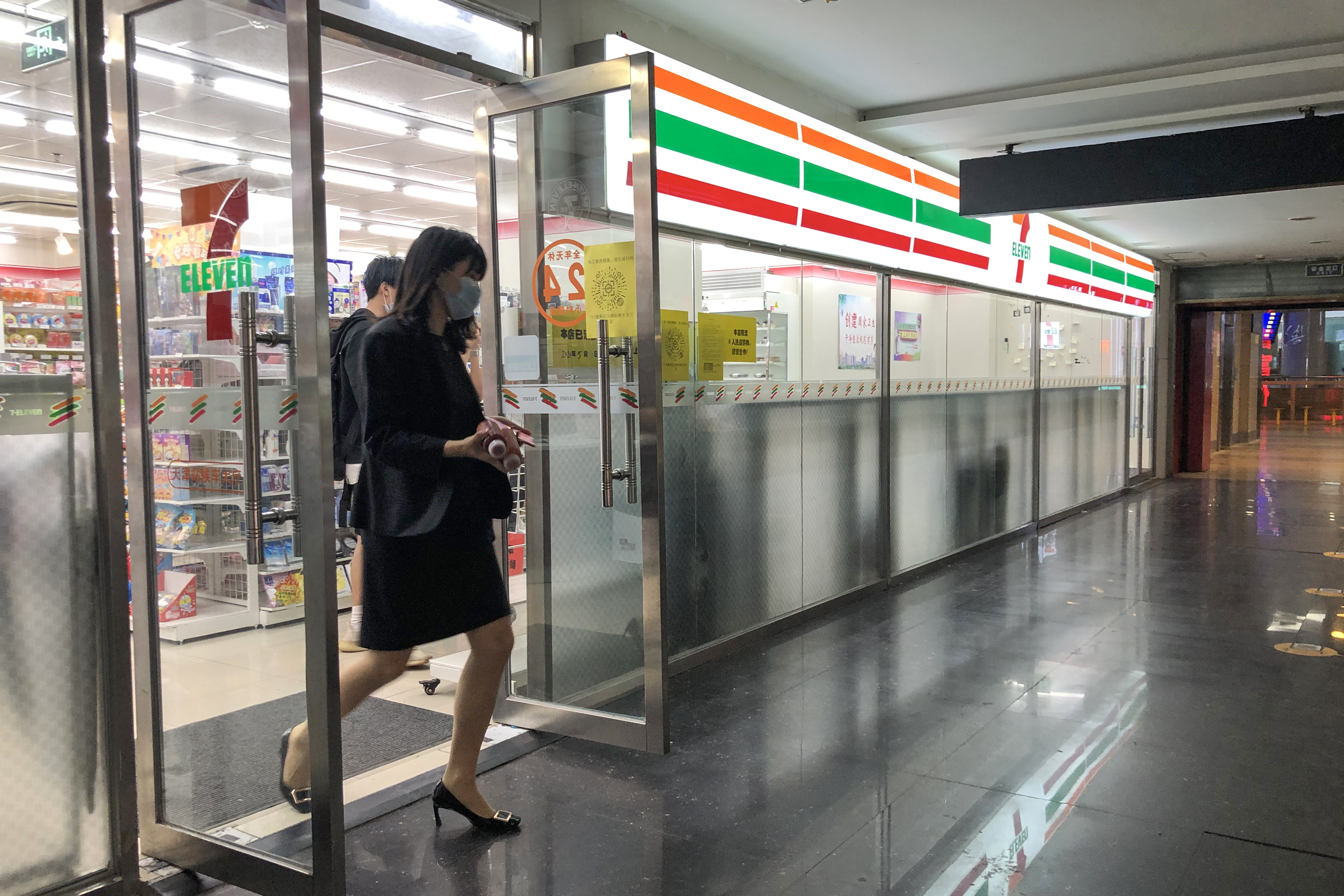 Unexpectedly, there's a 711 in the departure hall! Several minutes later, I realized why that girl in high heels ran so fast - SSSS.